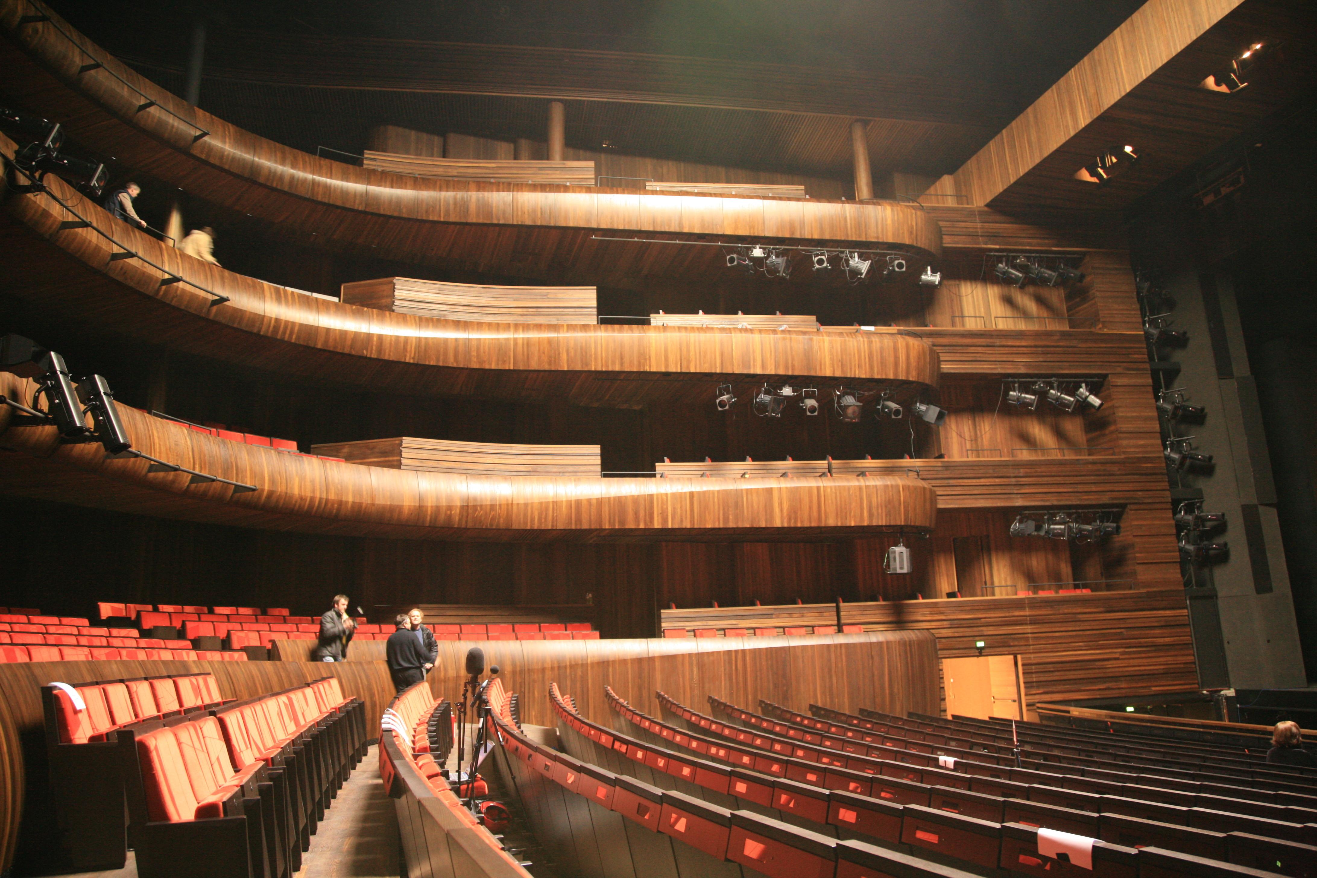 The auditorium of the main stage of Oslo Operahouse. The walls, floors and fronts of the balcony are Oak.